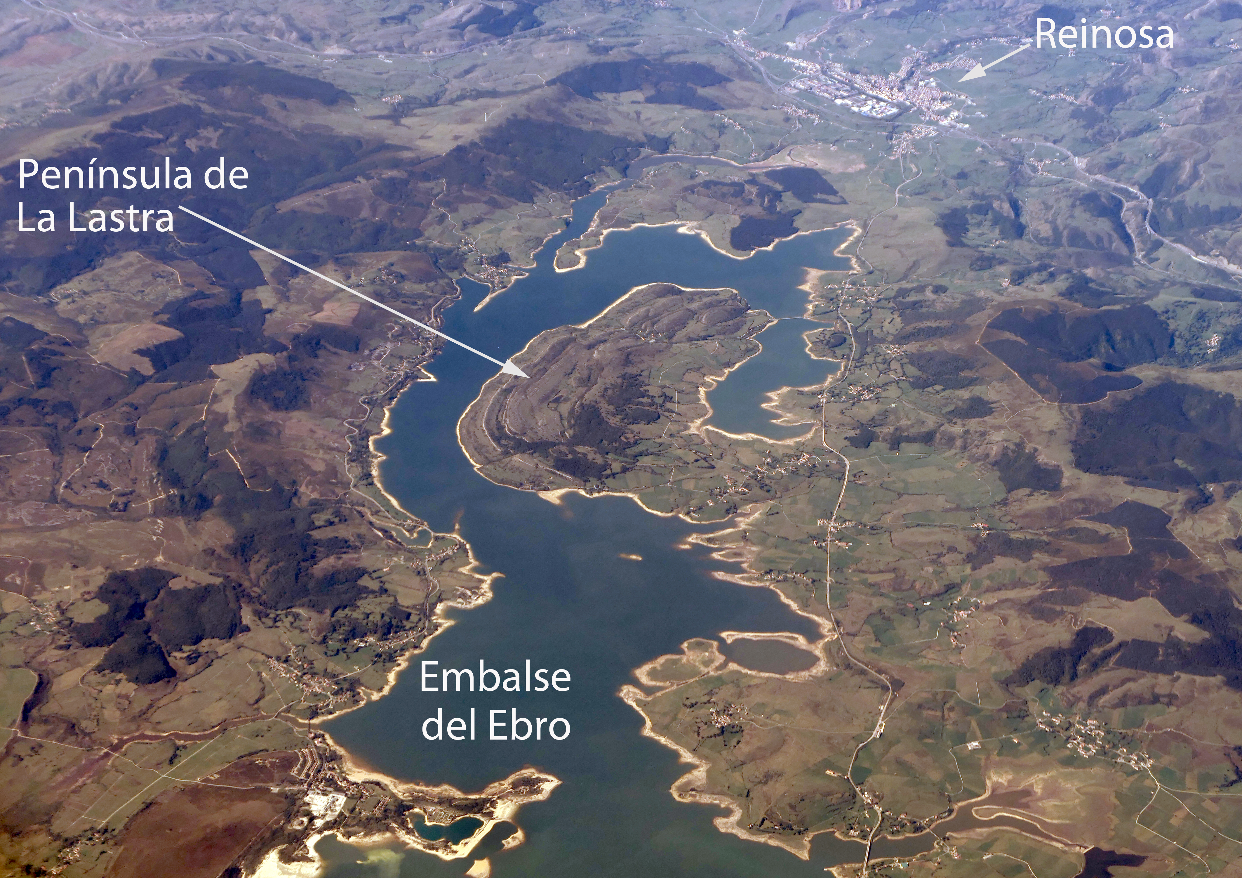 An aerial photograph of the western half of the Ebro reservoir in northern Spain, taken in September. The Lastra peninsula is labelled as is the town of Reinosa.